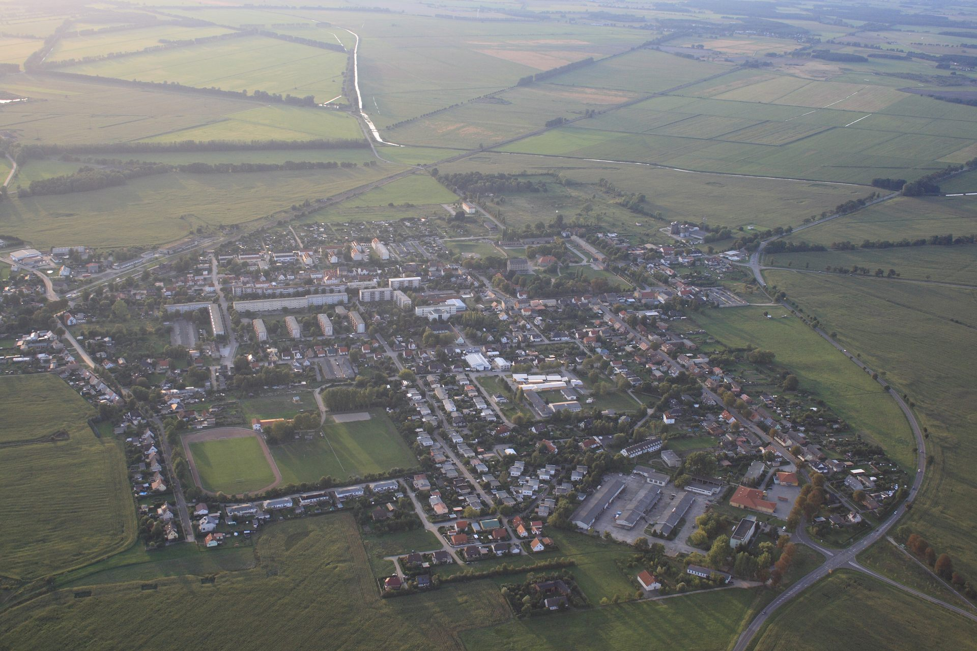 Luftaufnahme von Ferdinandshof, Mecklenburg-Vorpommern, aus südöstlicher Richtung.